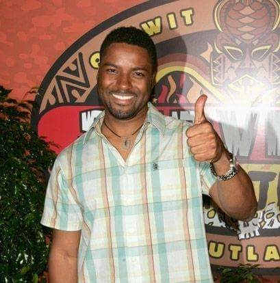 Earl Cole in May 2007